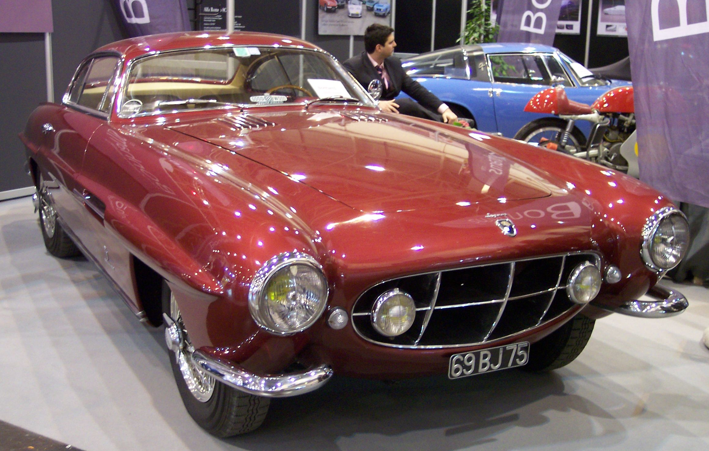 Techno-Classica 2007, Jaguar XK120 Supersonic (1954), Choachwork by Ghia penned by Giovanni Savonuzzi, 220 bhp, only 3 were made